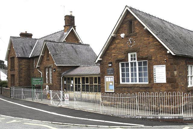 Welshampton C. of E. Primary School.